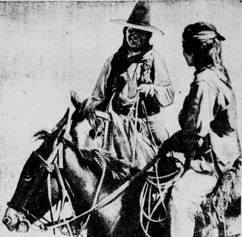 Tse-ne-gat_son_of_the_Paiute_Chief_Polk_Utah_Summer_1914_by_Zane_Grey